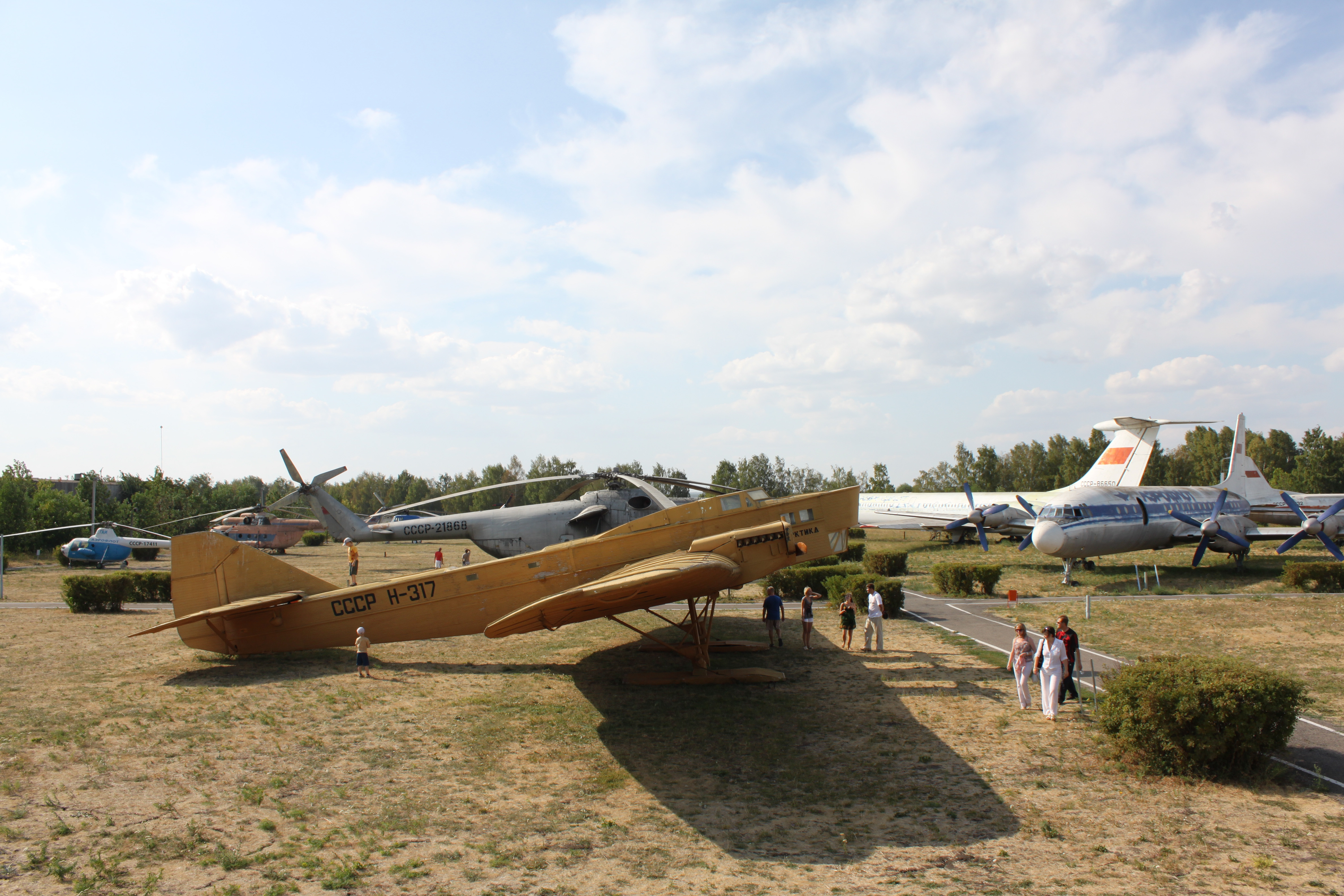 ANT-4 (in the foreground) in the Ulyanovsk Aircraft Museum.